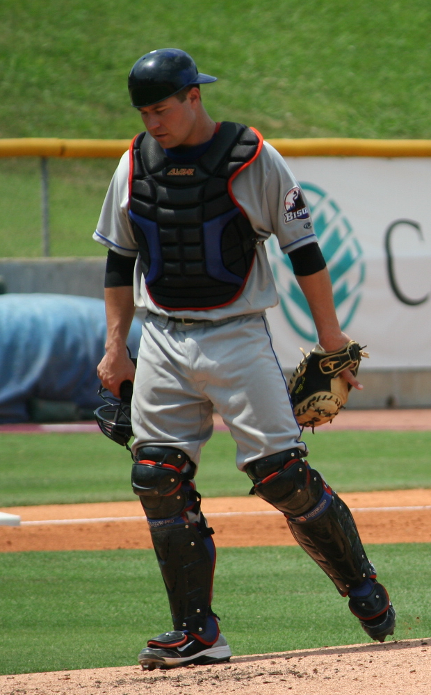 J. R. House